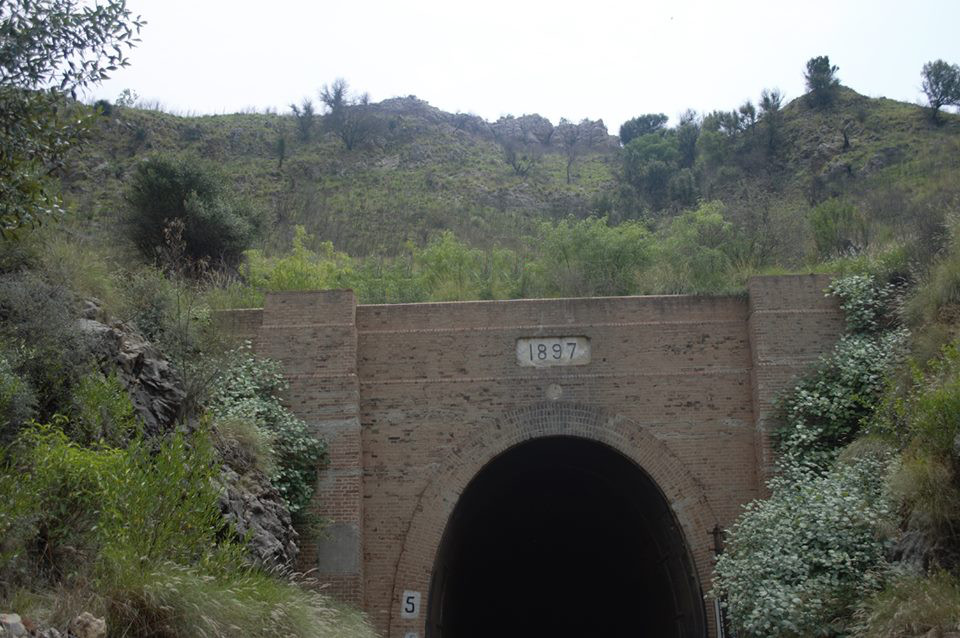 One of the series of tunnels located on Jhalar-Attock railway track.